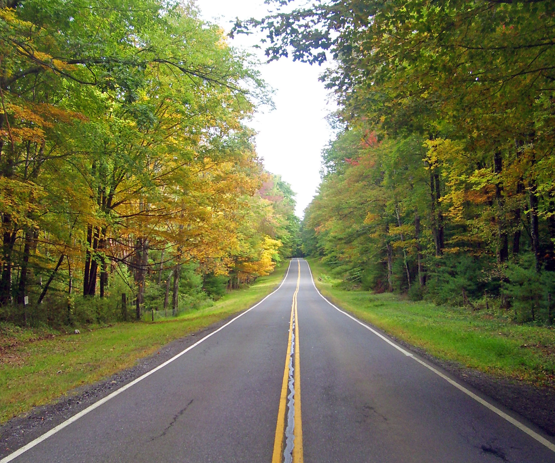 View east along NY 28A east of West Shokan, NY, USA, south of Ashokan Reservoir